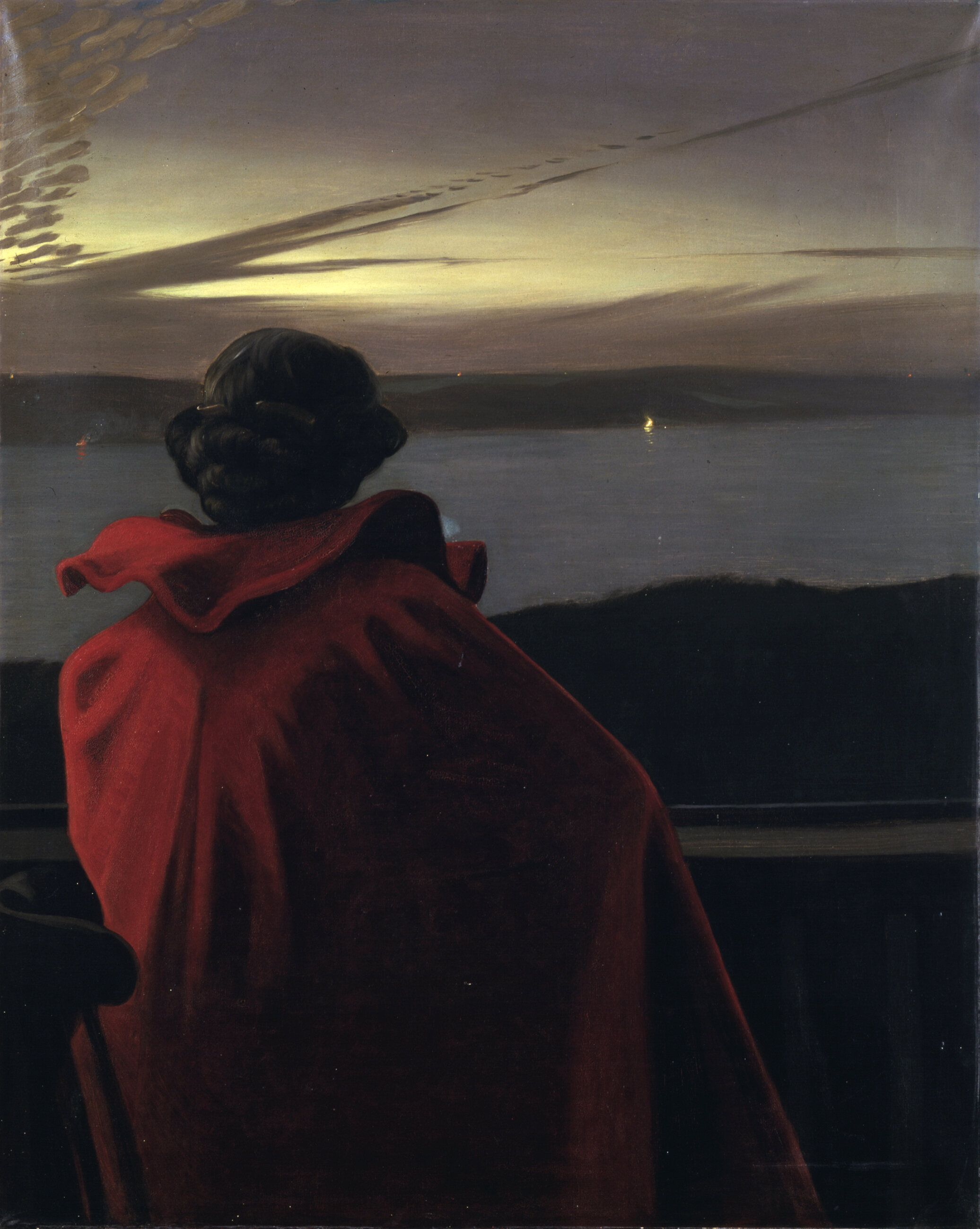 Sankt_Hans_aften_ved_Vejle_Fjord